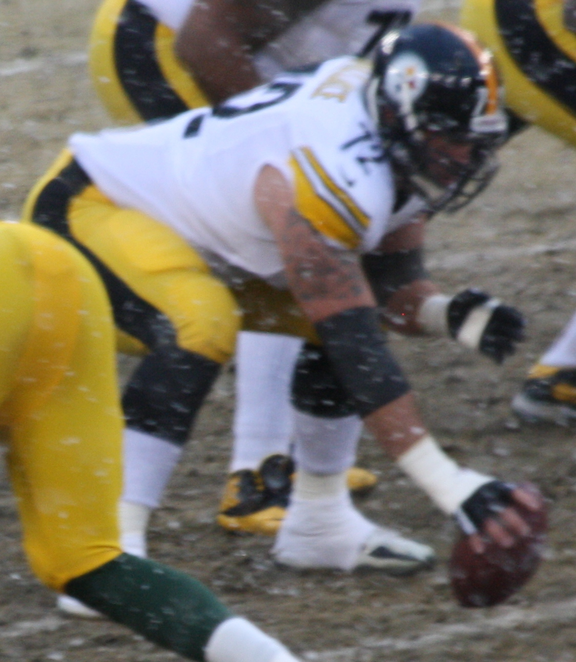 Pittsburgh Steelers center Cody Wallace prepared to snap.